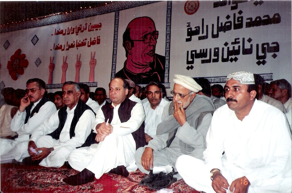 Nawaz Sharif,Ghous Ali Shah And Ismail Rahoo present at the anniversary.